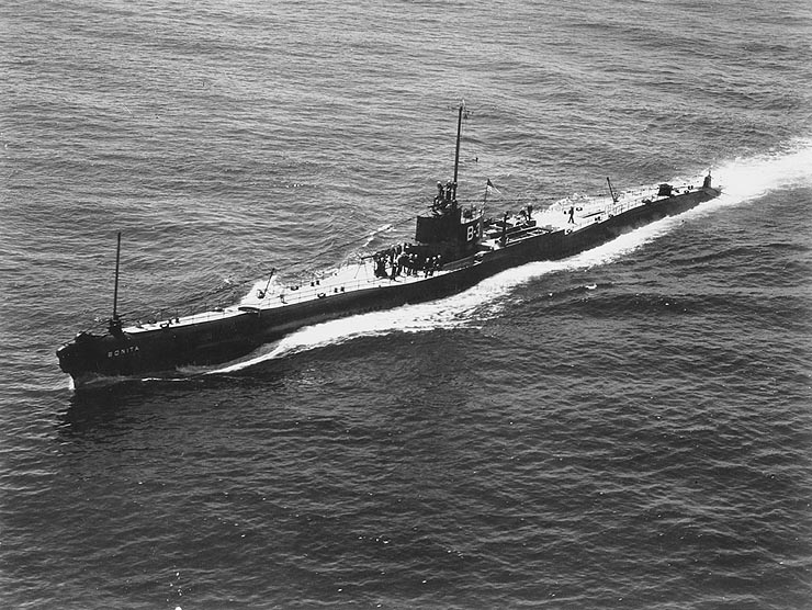 USS Bonita (SS-165) underway, circa the middle 1930s. Note that her original 5"/51 deck gun has been replaced with a 3"/50. Original caption: "Photo # NH 56514 USS Bonita underway, circa the mid-1930s" — removed caption